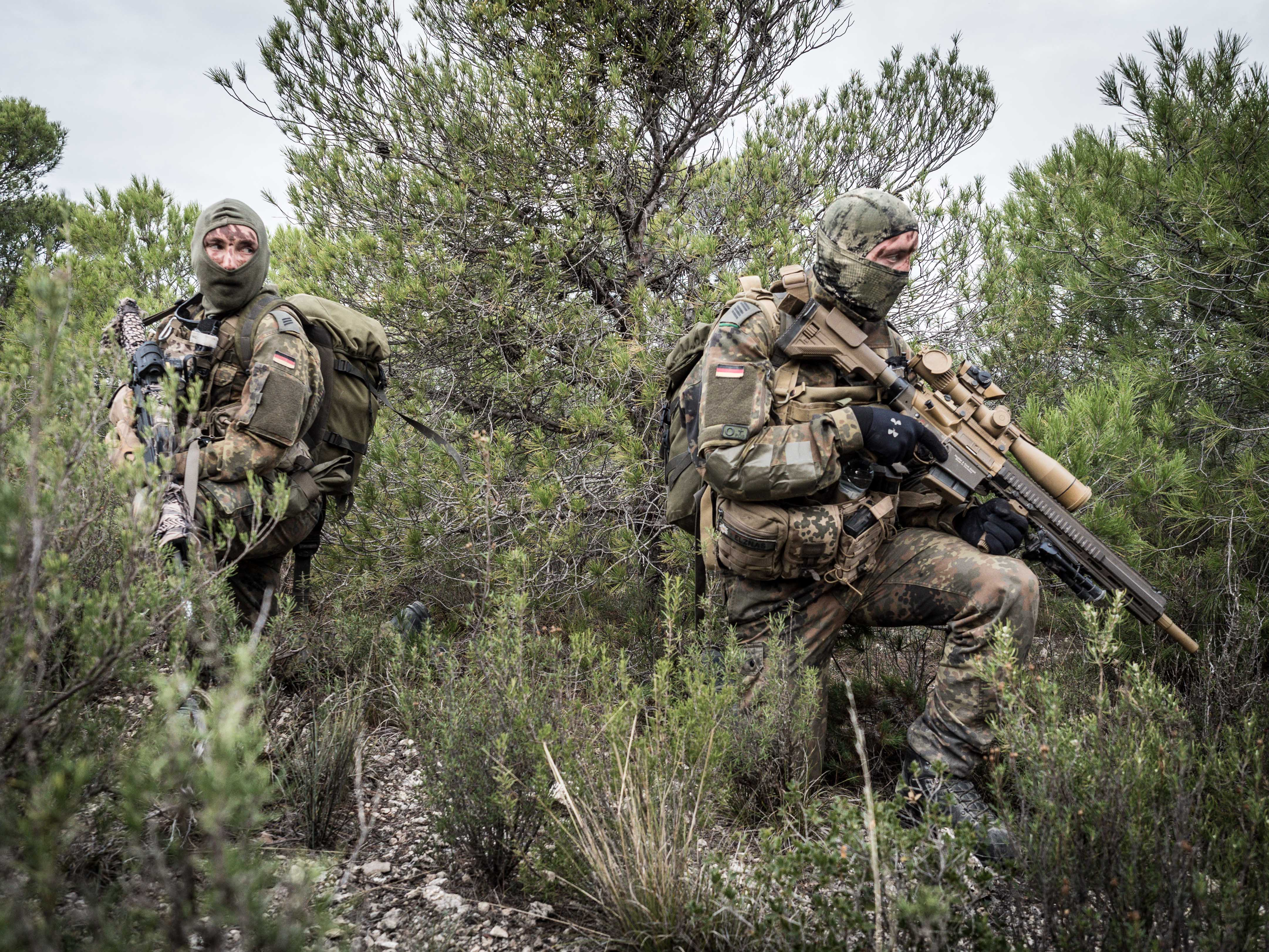 German Mountain Infantry DMR Squad in position with a G28 at San Gregorio training area, Spain on October 26, 2015 during Trident Juncture 15. NATO photo by A. MARKUS